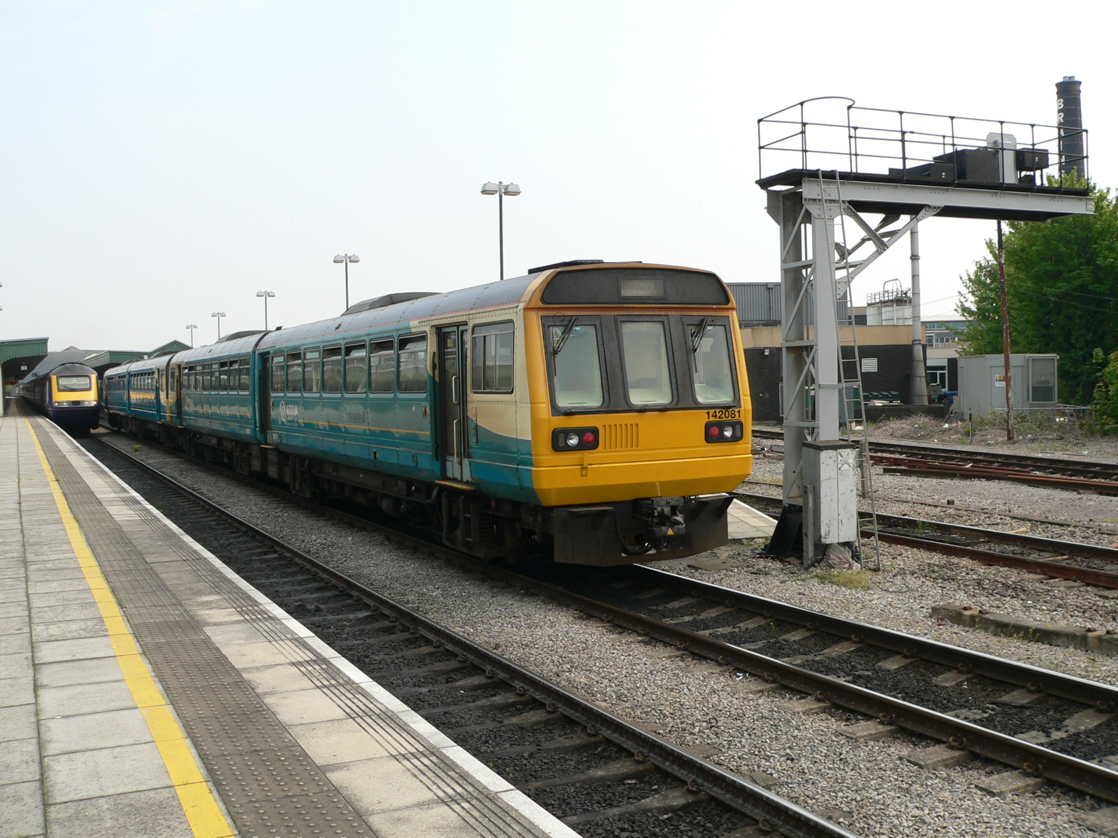 Arriva Trains Wales Class 142 railbus DMU 142081 and another unidentified Class 142 unit pass a First Great Western HST as they arrive into Cardiff Central with an eastbound service to Aberdare.